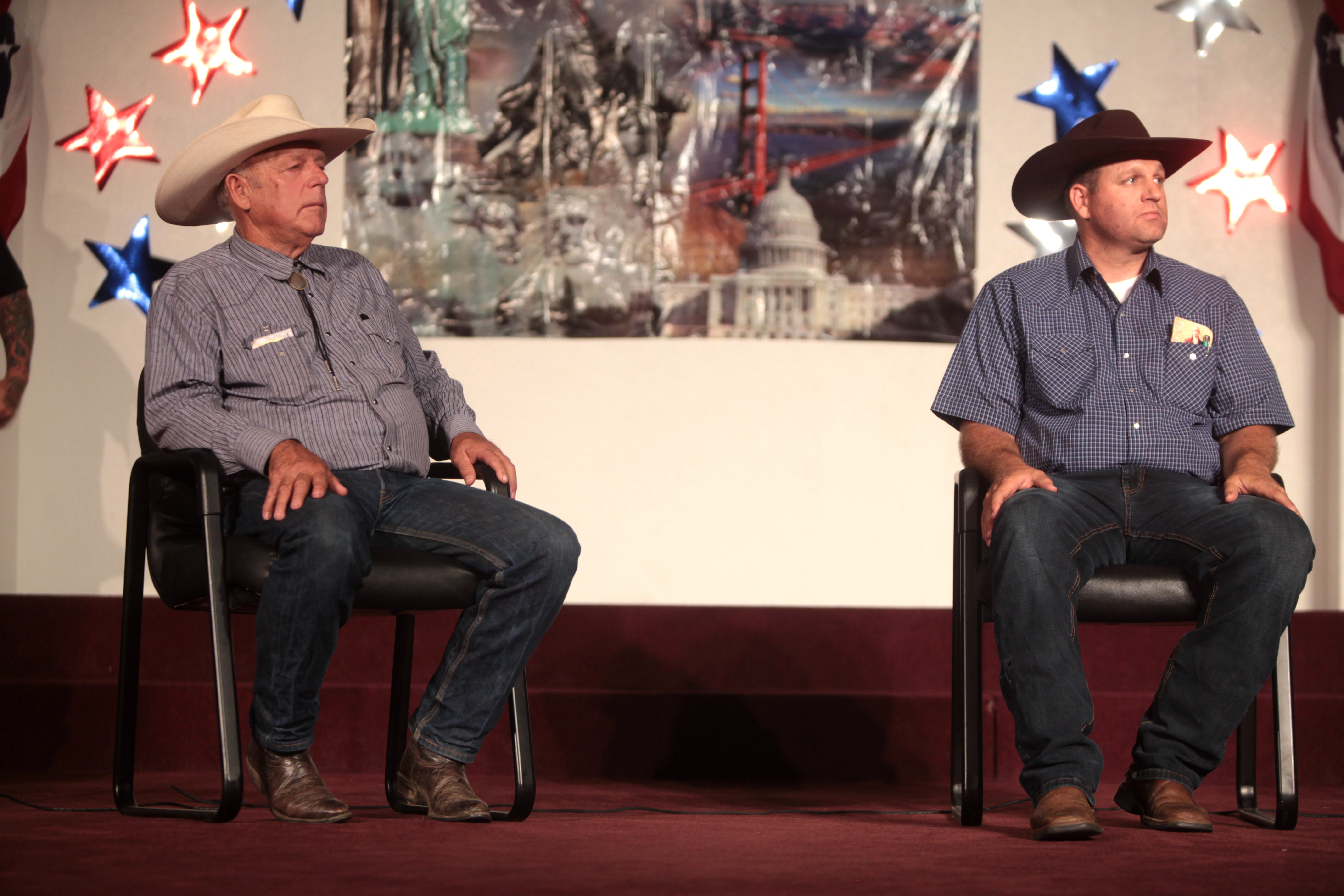 Cliven and Ammon Bundy speaking at a forum hosted by the American Academy for Constitutional Education (AAFCE) at the Burke Basic School in Mesa, Arizona.